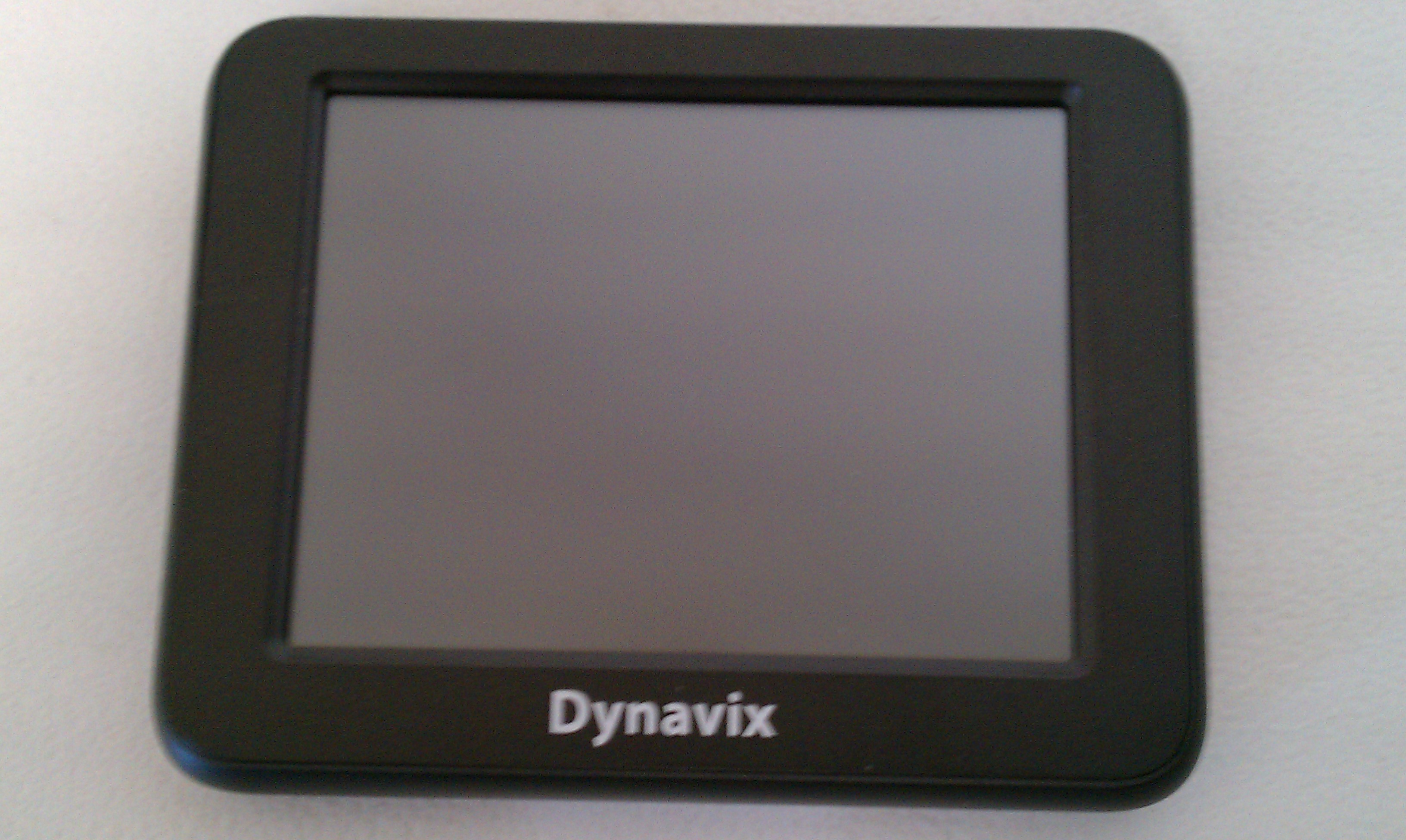 Dynavix Atto Region GPS receiver